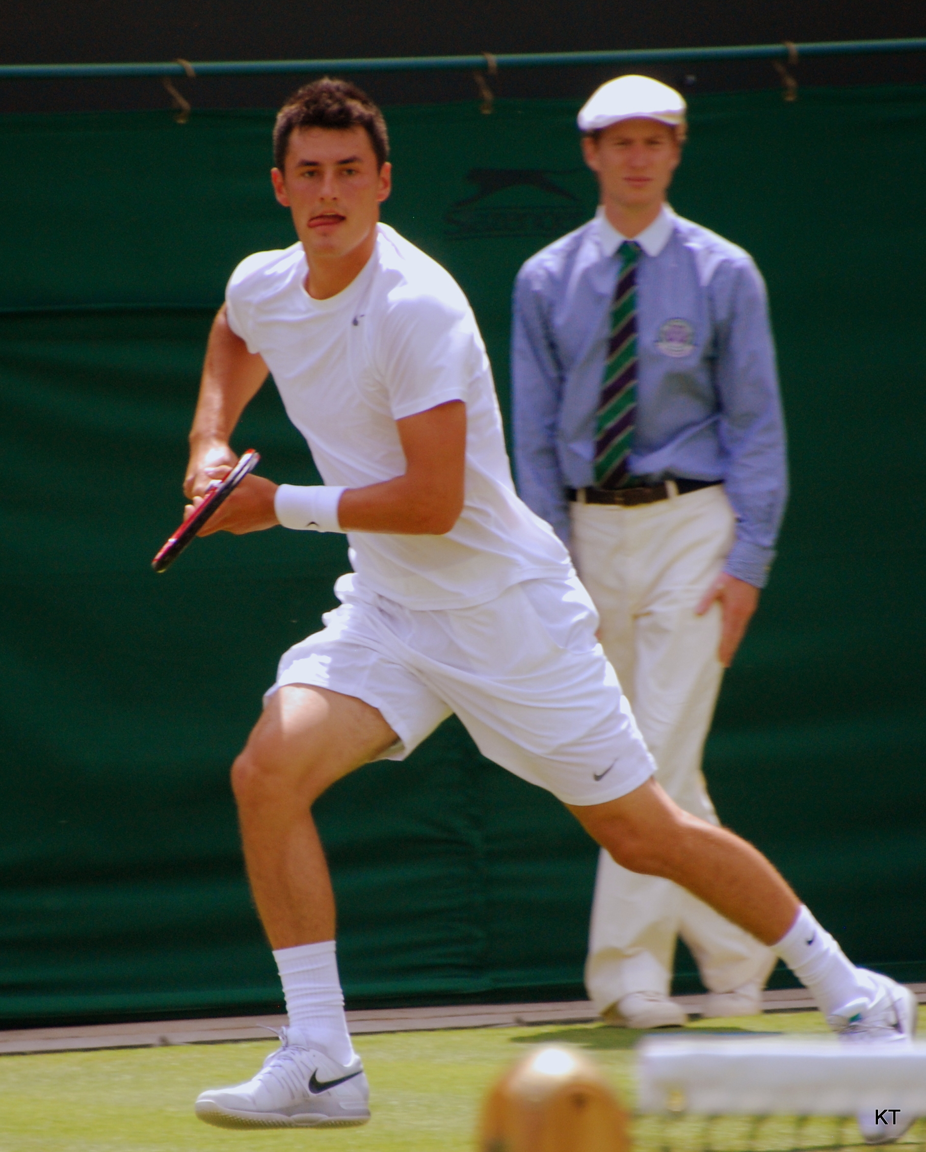 Bernard Tomic